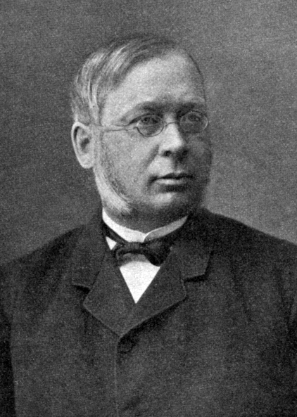 The Norwegian politician Emil Stang d.e.